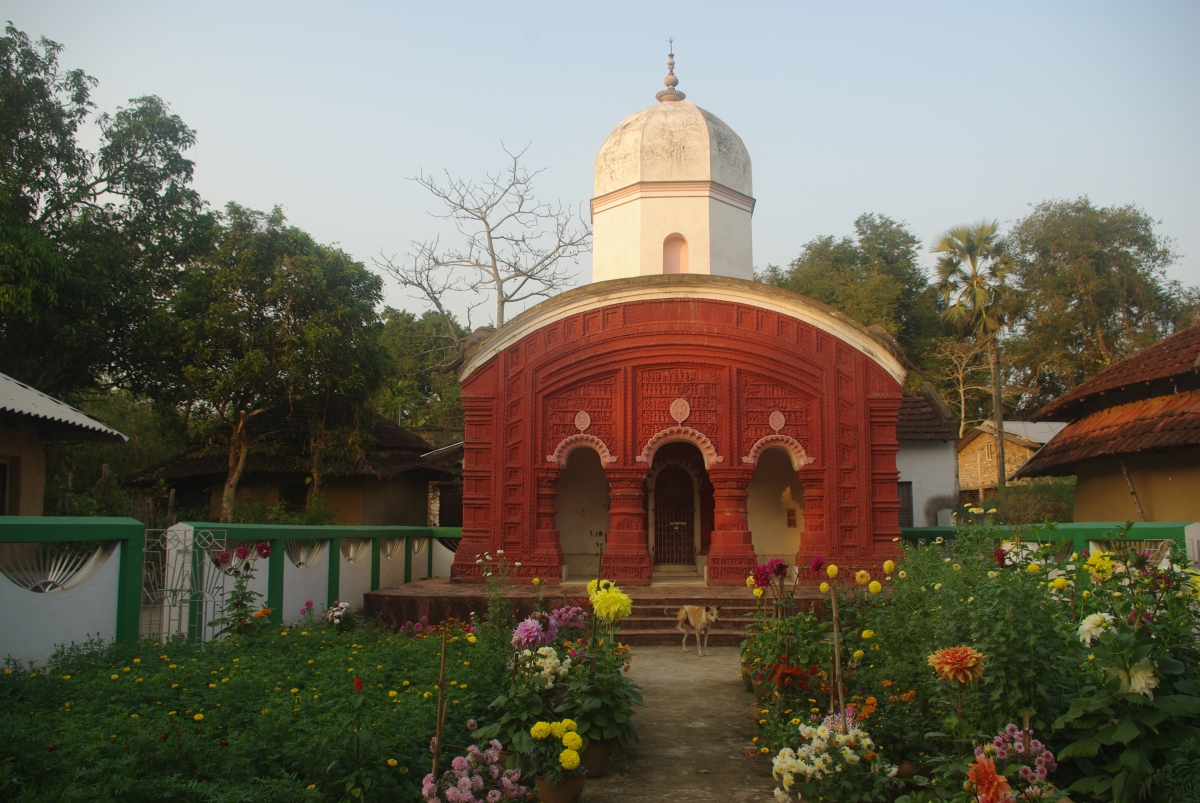 Templeof Gopinath at Khard Radhakantapur